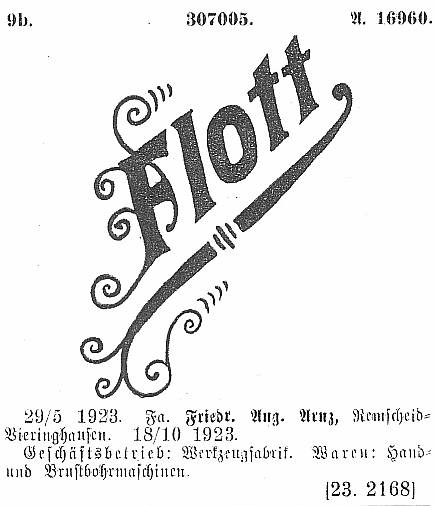 Warenzeichen